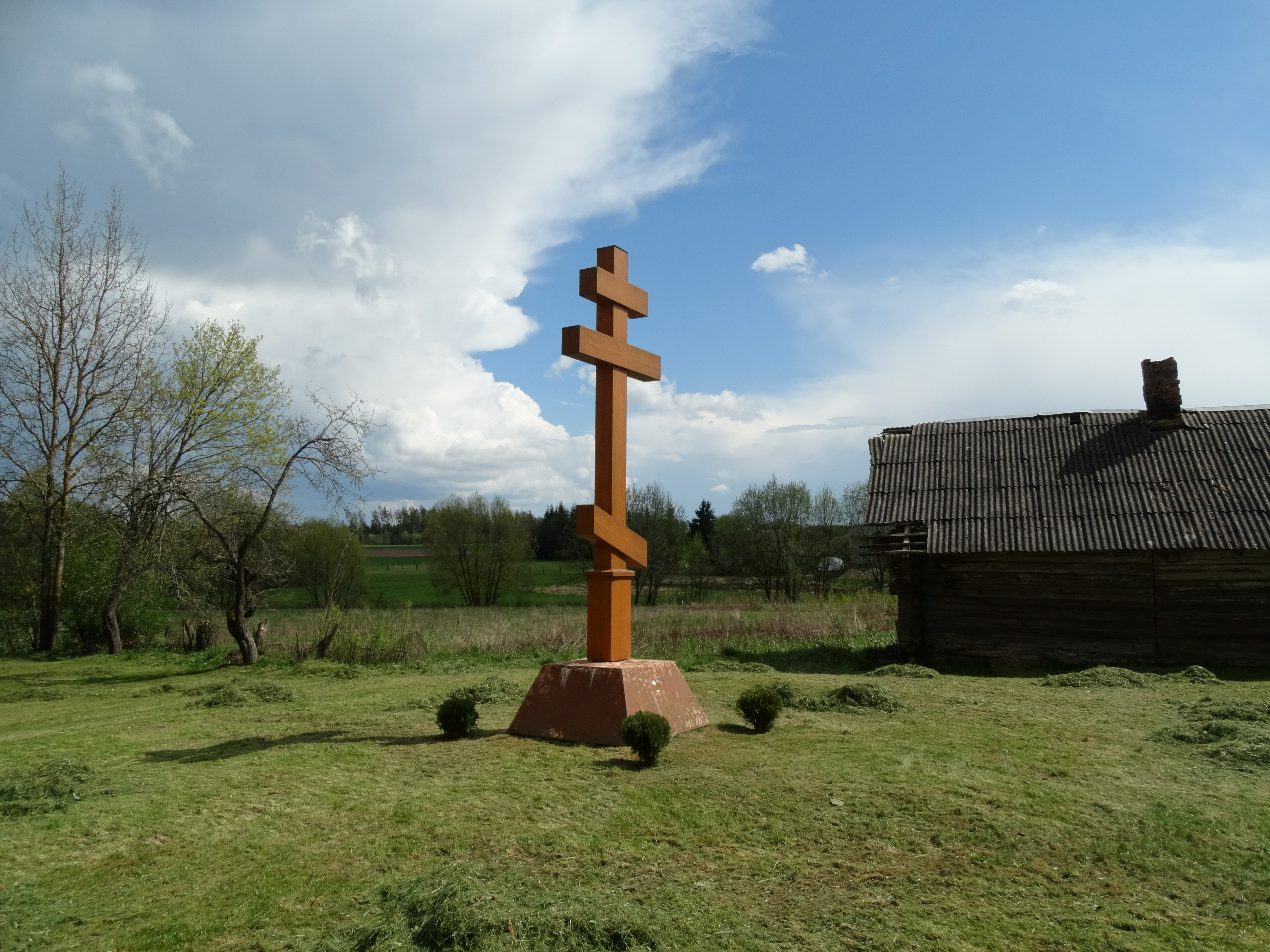 Cross of Old Believers, Gojus, Šalčininkai District, Lithuania